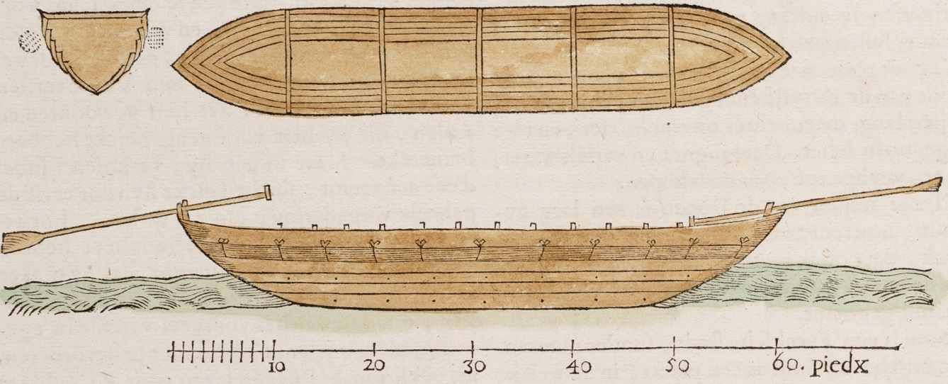 Chajka